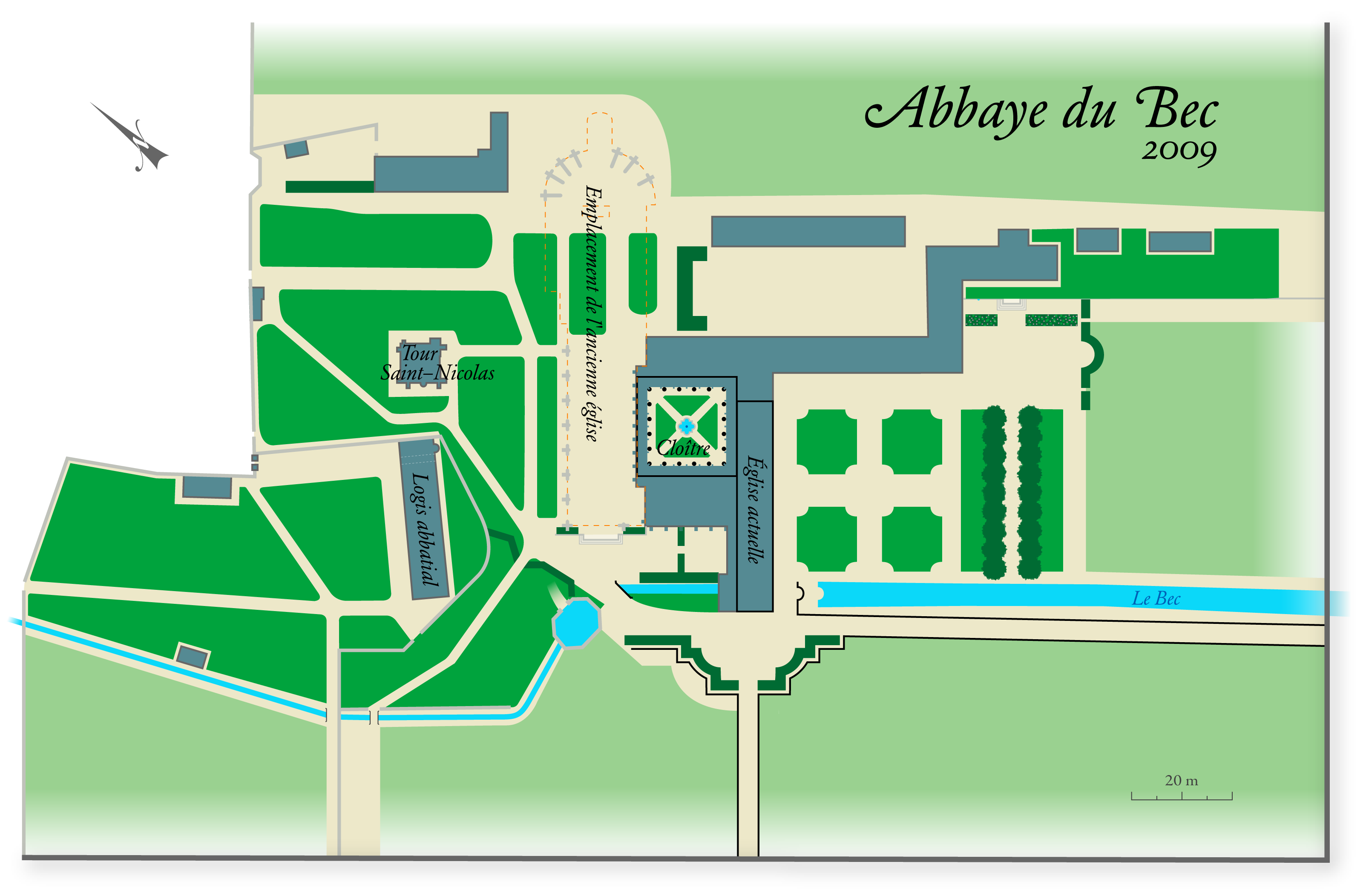 Map of le Bec abbey in 2009.